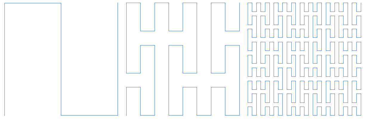 3 first steps of the building of the Peano fractal curve